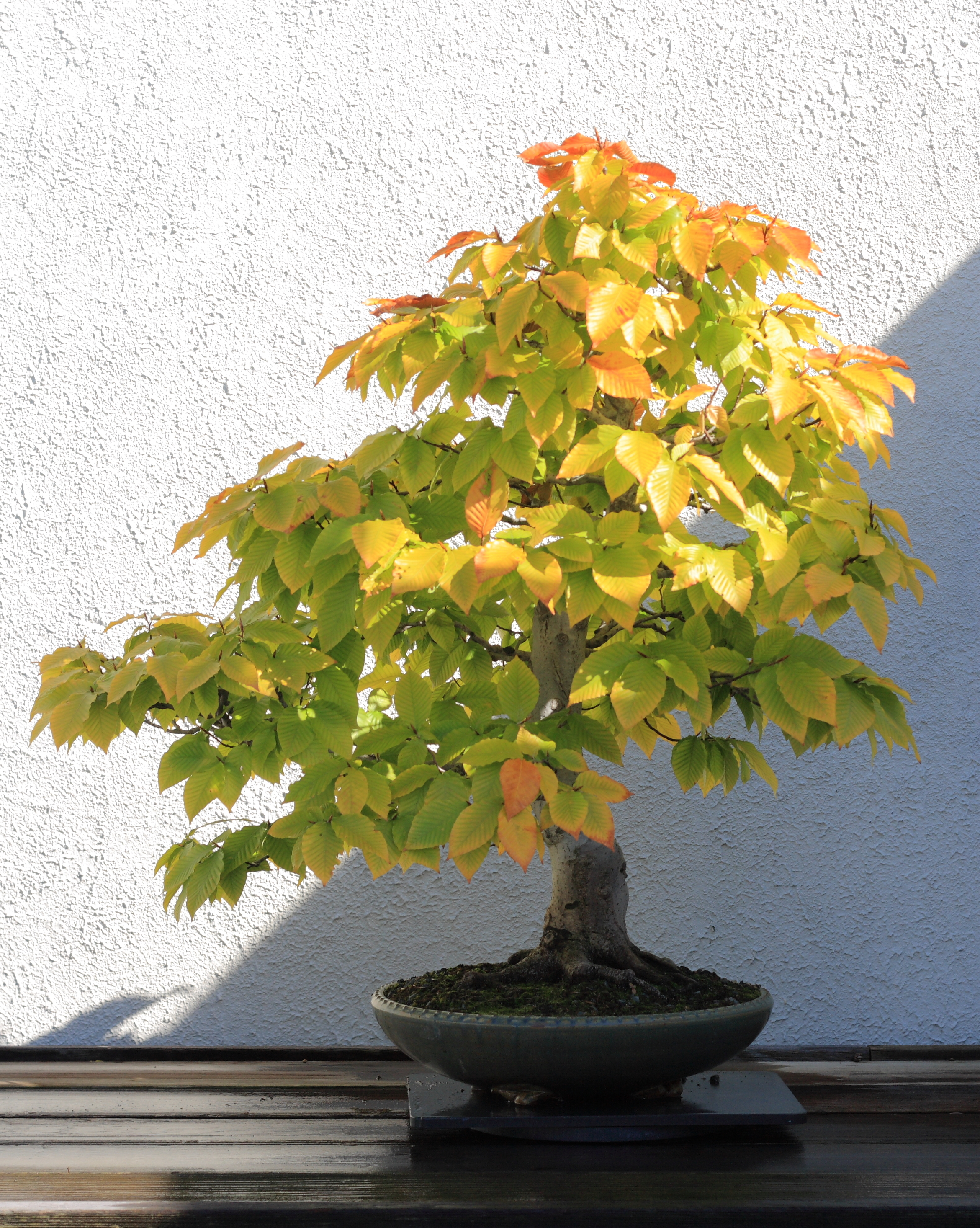 An American Beech (Fagus grandifolia) bonsai, North American Collection 272, on display at the National Bonsai & Penjing Museum at the United States National Arboretum. According to the tree's display placard, it has been in training since 1979. It was donated by Fred E. Mies.